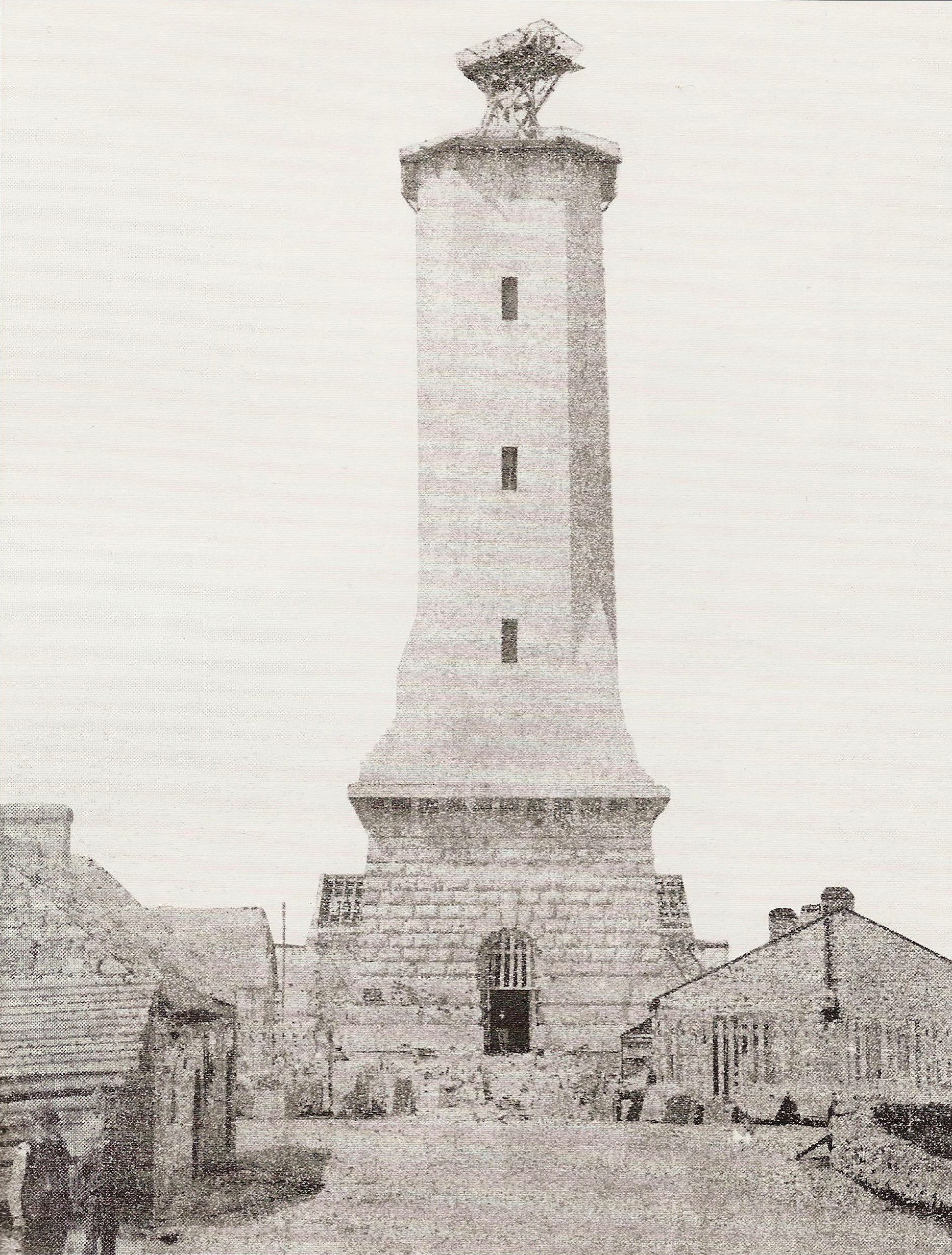 Eckmühl lighthouse during it building.